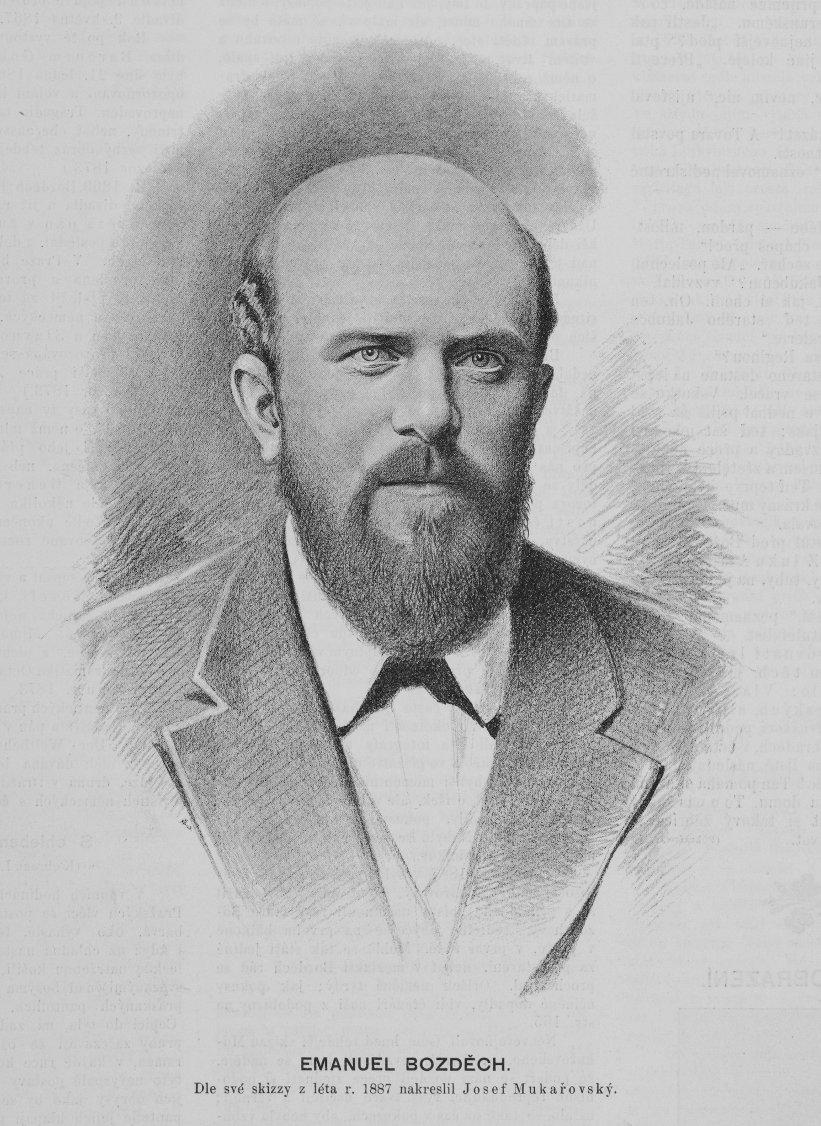 Portrait of Emanuel Bozděch (1841 - 1889), mysteriously disappeared Czech playwright.